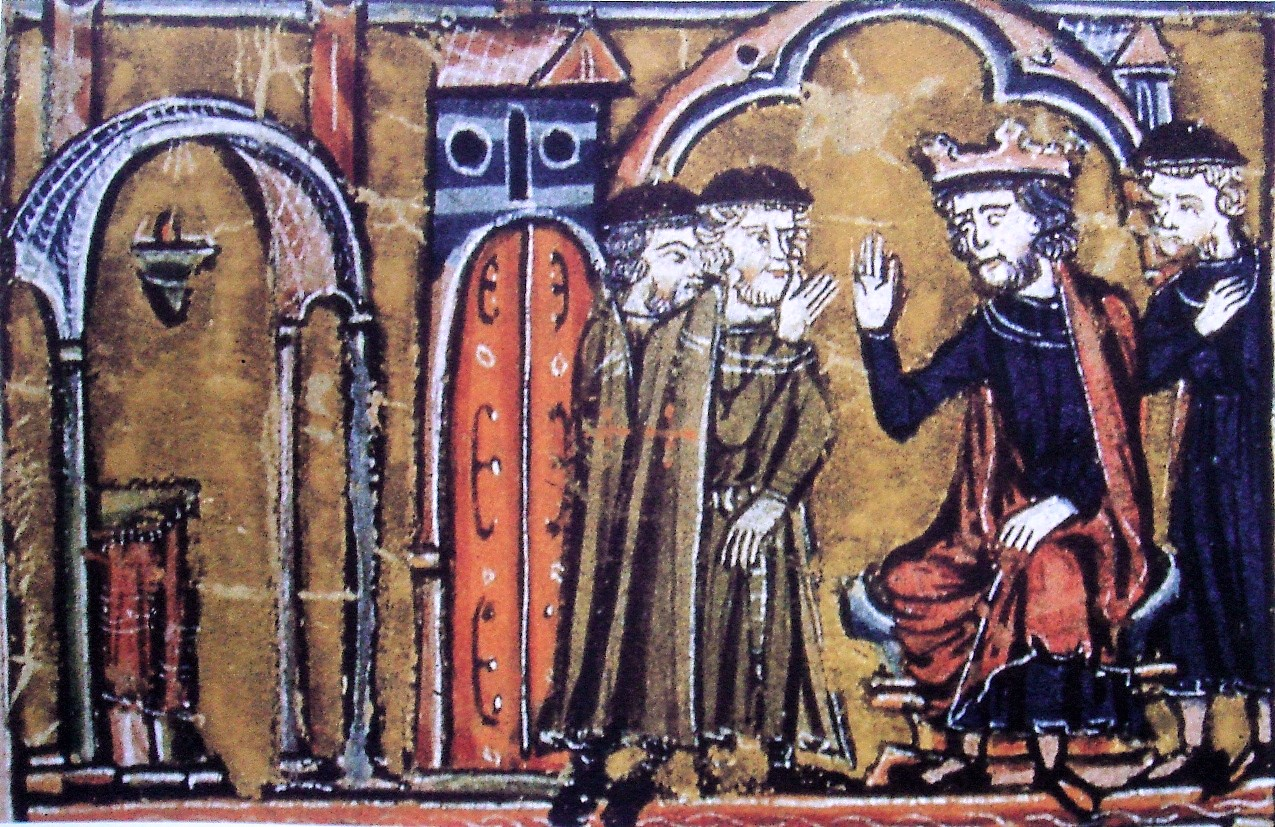 BaldwinII ceeding the location of the Temple of Salomon to Hugues de Payns and Gaudefroy de Saint-Homer. The fourth person is Warmund, Patriarch of Jerusalem.